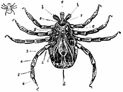 Analytical drawing of ventral view of Hyalomma aegyptium (camel tick; undistended female).